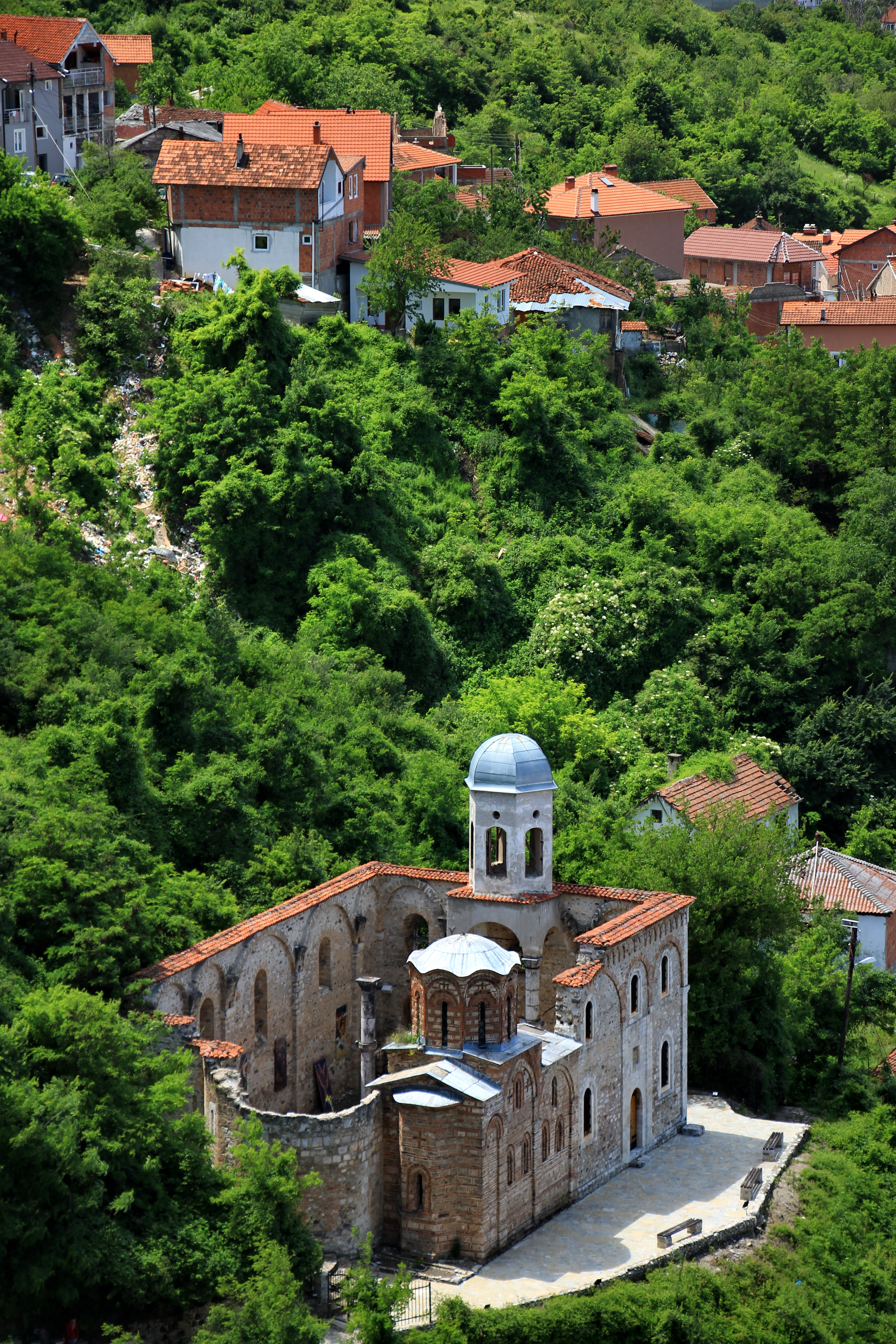 Church of the Holy Saviour, PrizrenShqip: Kisha e Shën Spasit (Shëlbuesit)